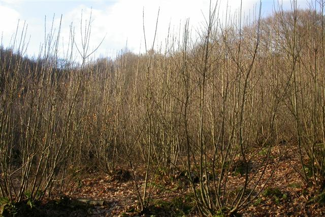 Coppice wood. Coppiced woodland, with charcoal burners nearby.